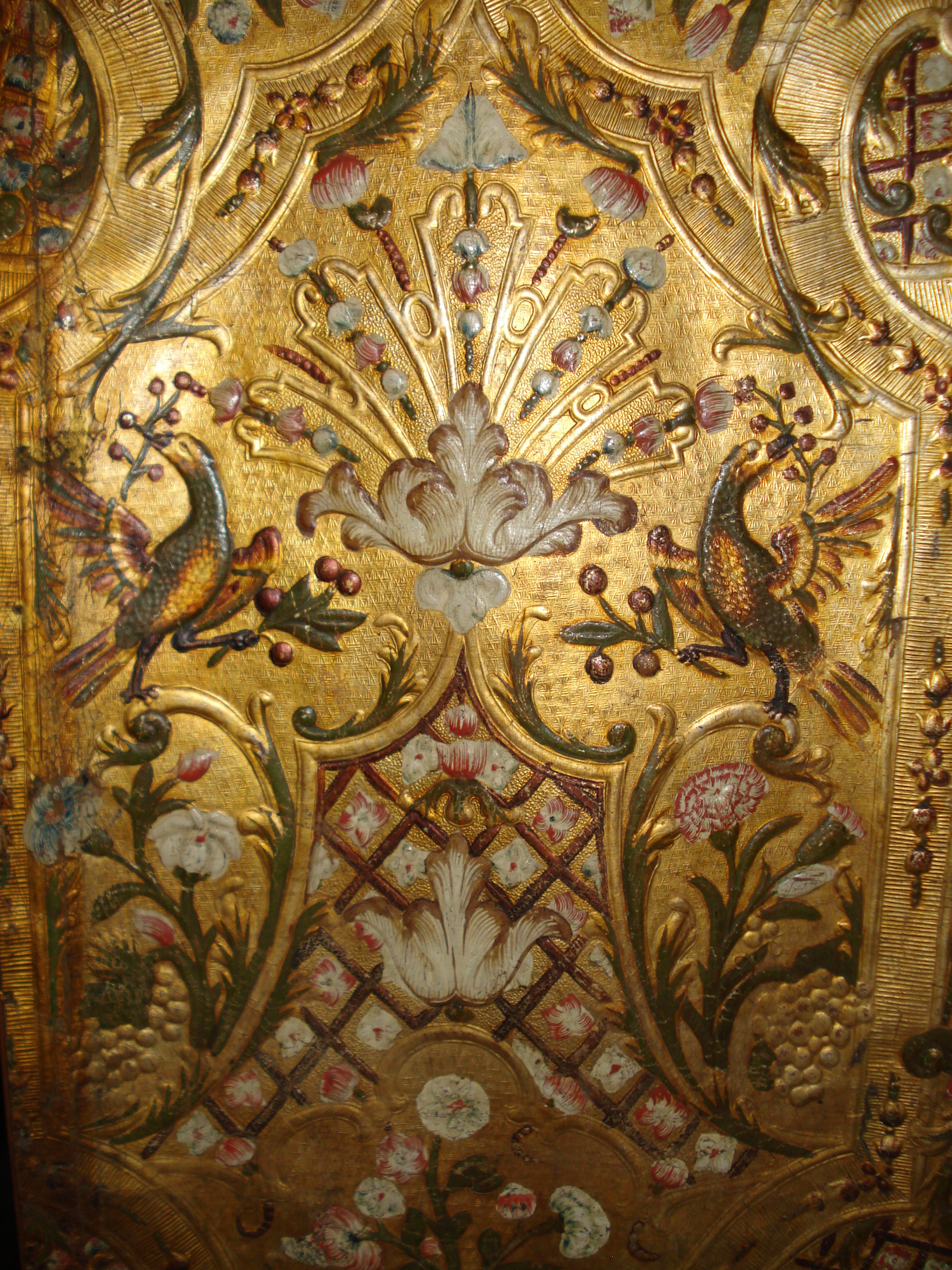 Gyldenlæder (golden leather). Wall leather covering, embossed. On the manor Rosenholm, Denmark